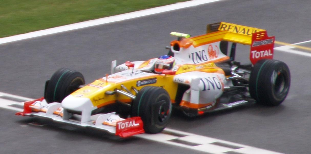 Romain Grosjean driving for Renault F1 at the 2009 Belgian Grand Prix.